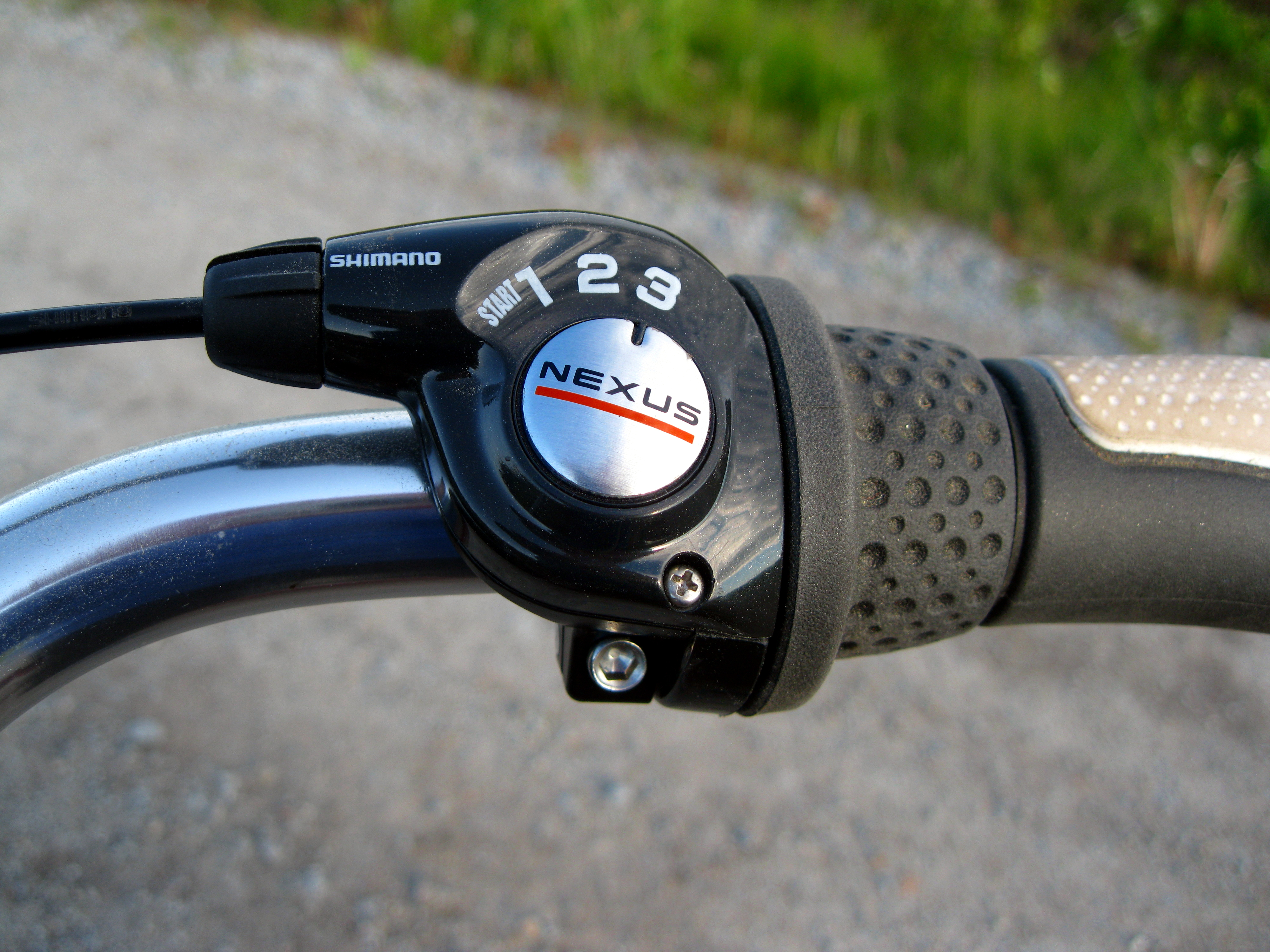 Shimano Nexus Bicycle gear shift lever.